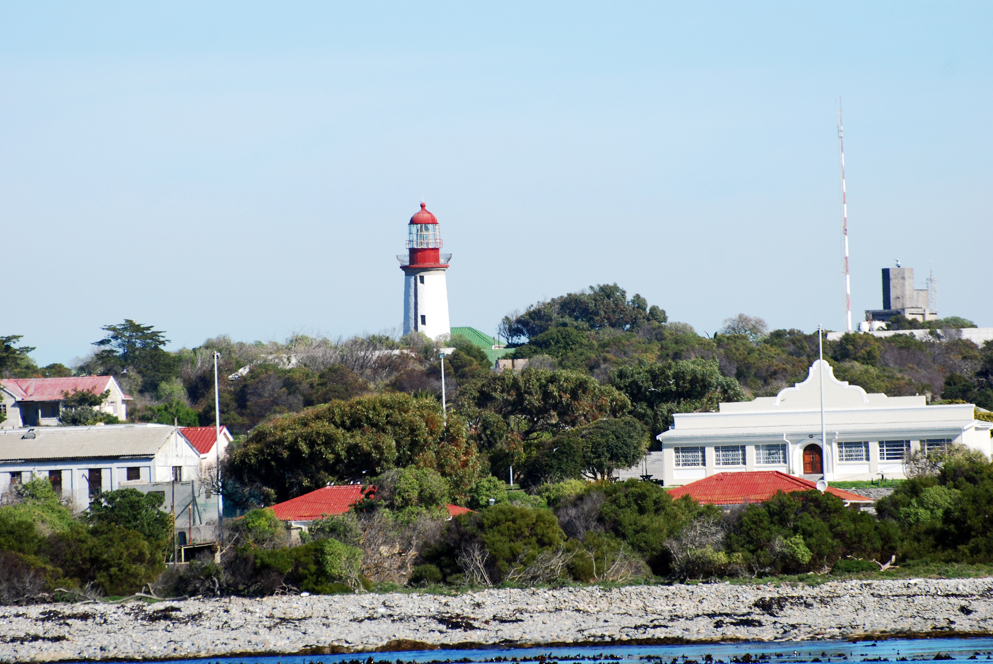 Views of Robben Island Lighthouse / Jan van Riebeeck first set a navigation aid atop the highest point on the island. Huge bonfires were lit at night to warn ships of the rocks that surround the island. The current lighthouse was built 1864 and converted to electricity in 1938. It is the only South African lighthouse to utilise a flashing light instead of a revolving light and is visible for 24 nautical miles.